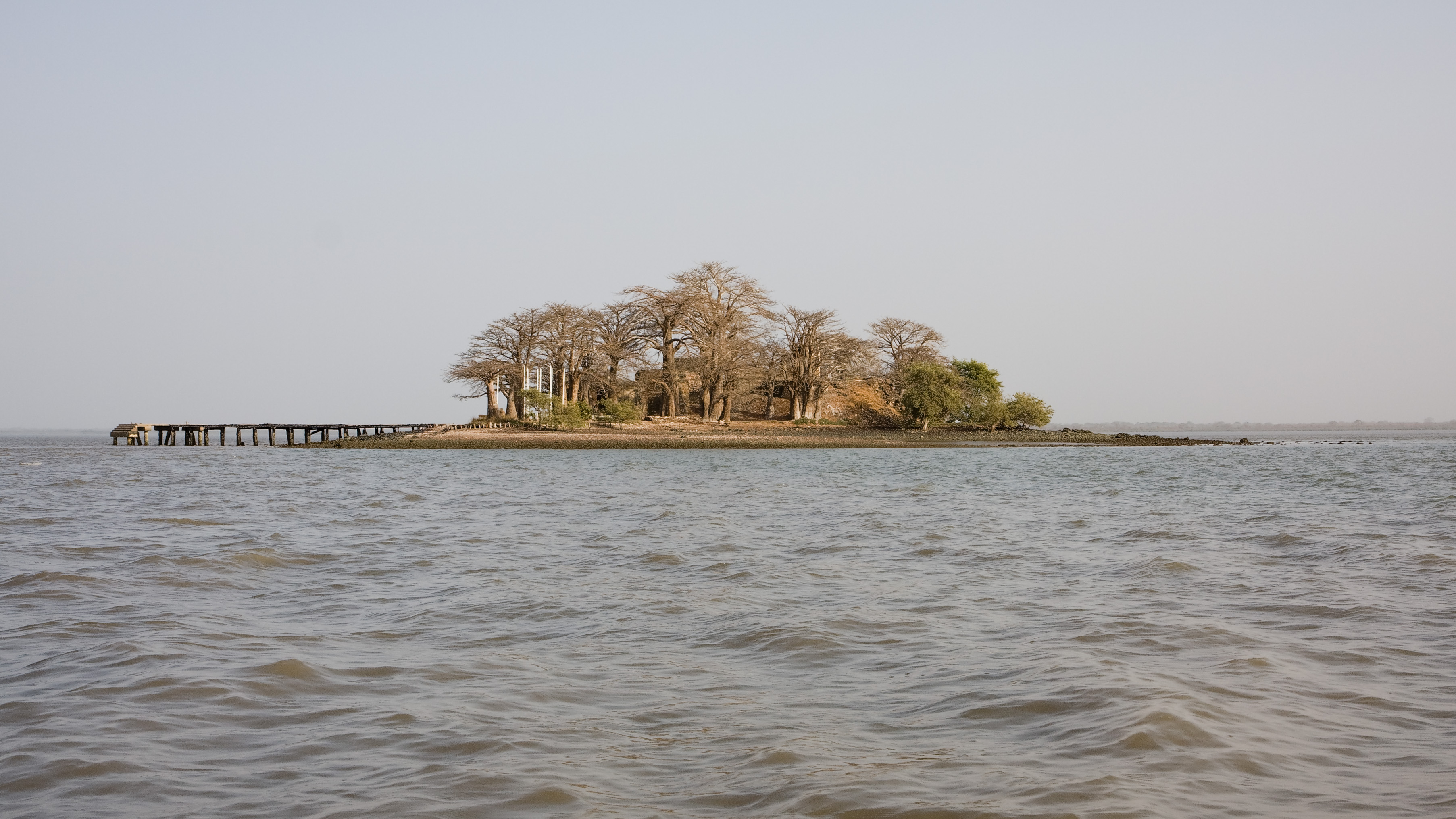 The remaining part of Fort James on James Island, The Gambia